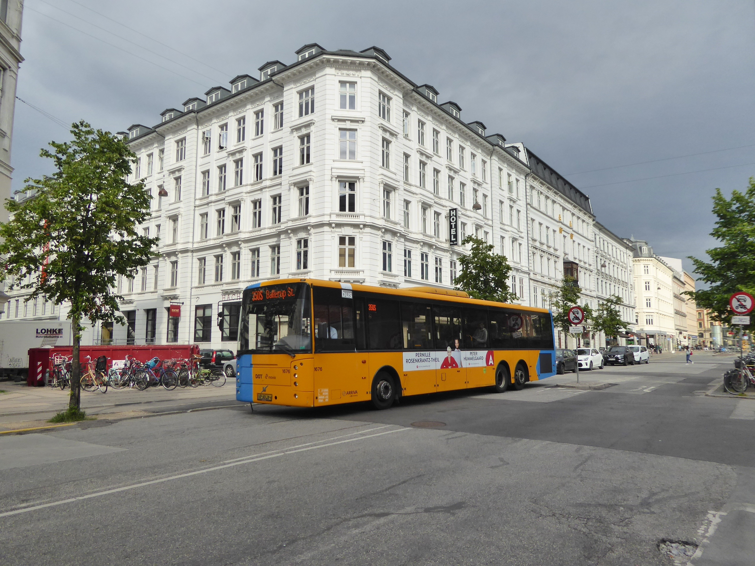 Movia bus line 350S on Frederiksborggade in Indre By in Copenhagen.